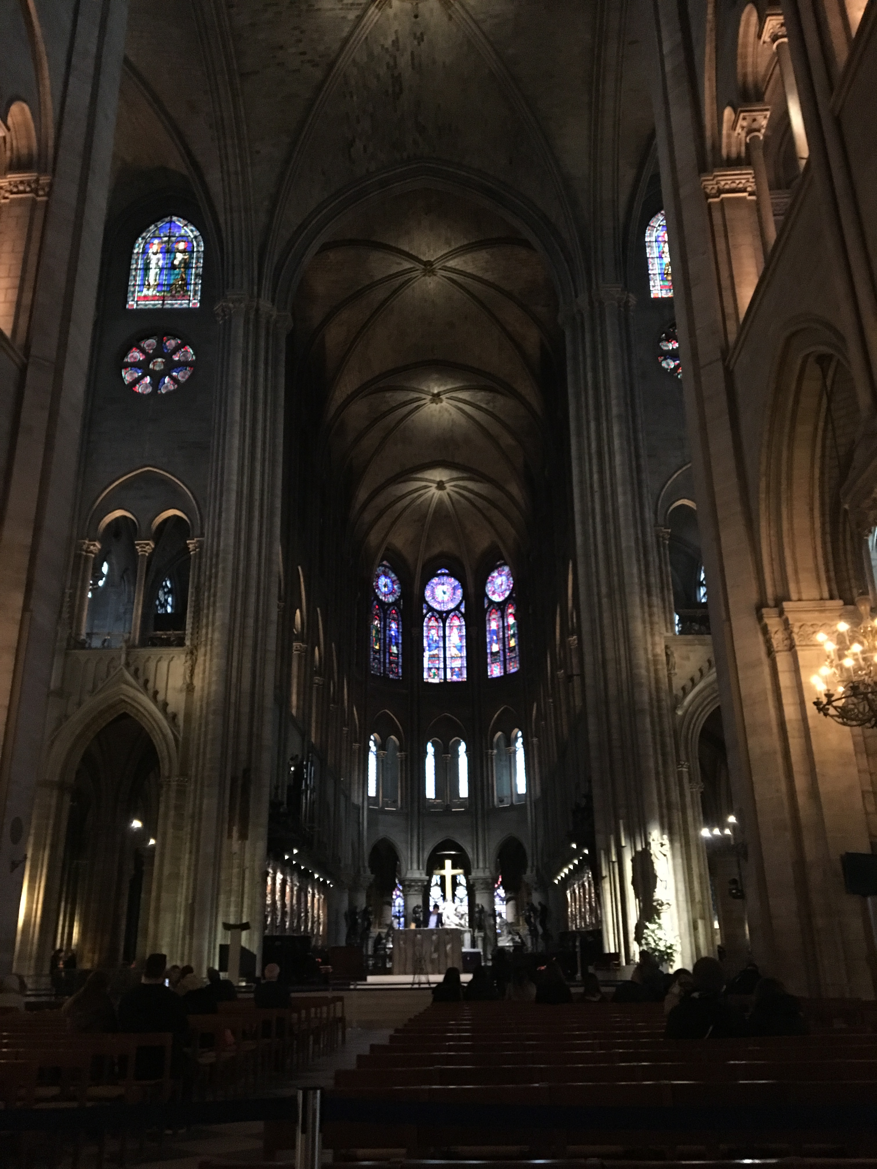 A view of the main floor of the Toledo Cathedral.